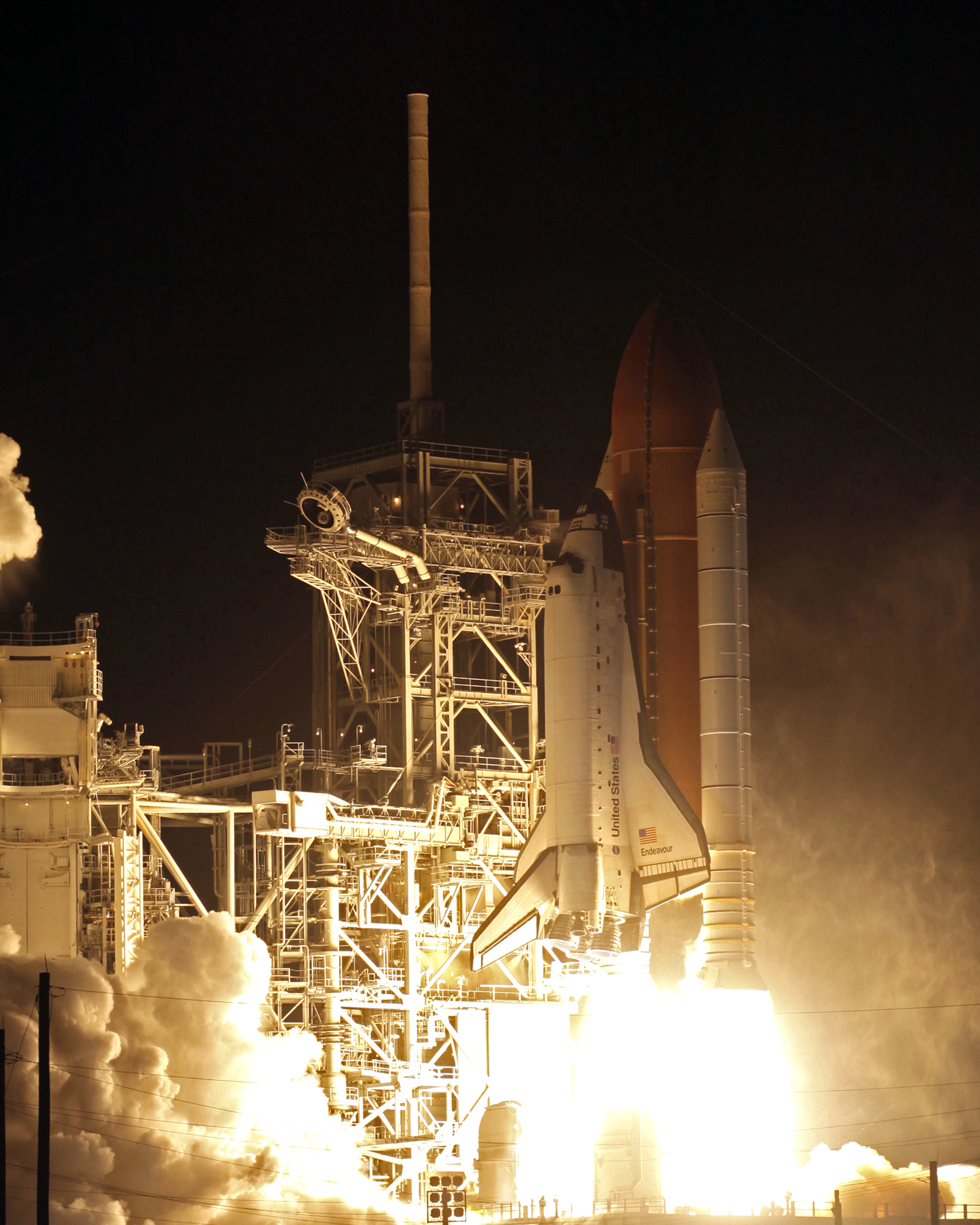 Light-filled clouds of smoke and steam roll across Launch Pad 39A at NASA's Kennedy Space Center as space shuttle Endeavour roars into the night sky on the STS-126 mission. Liftoff was on time at 7:55 p.m. EST. STS-126 is the 124th space shuttle flight and the 27th flight to the International Space Station. The mission will feature four spacewalks and work that will prepare the space station to house six crew members for long- duration missions.